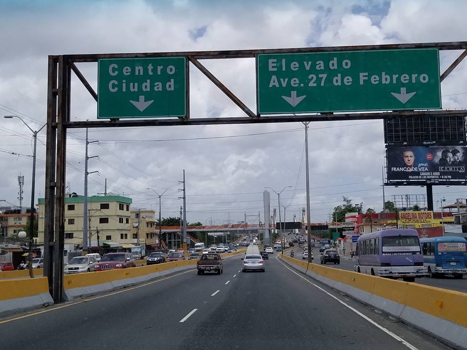 DR-3 Westbound before the Juan Bosch Bridge after the East Santo Domingo Tunnel.